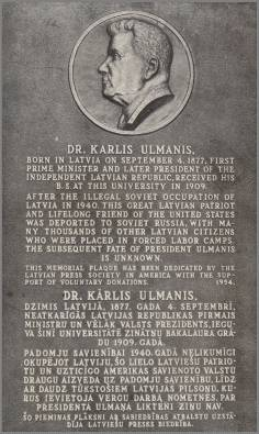 Karlis Ulmanis Plaque at the University of Nebraska